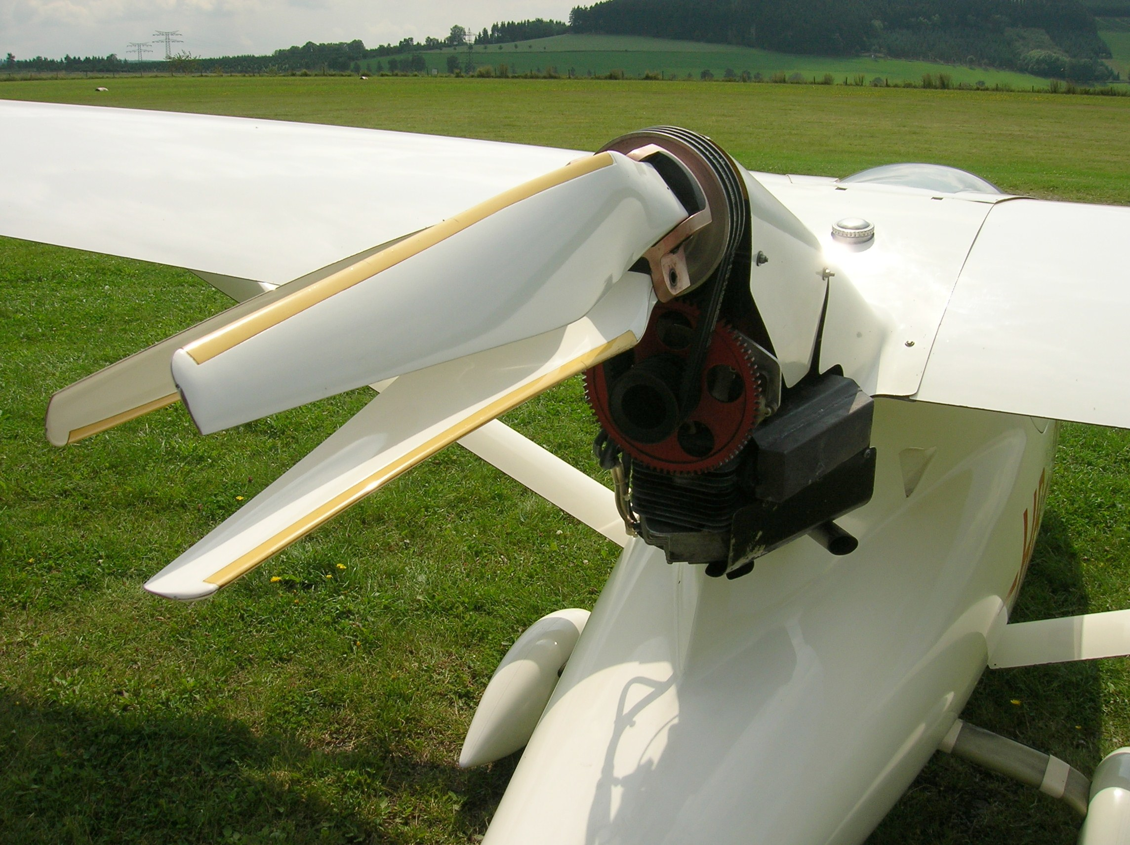 Engine and propeller of a Technoflug Piccolo. Picture was taken at german airfield Schmallenberg-Rennefeld.